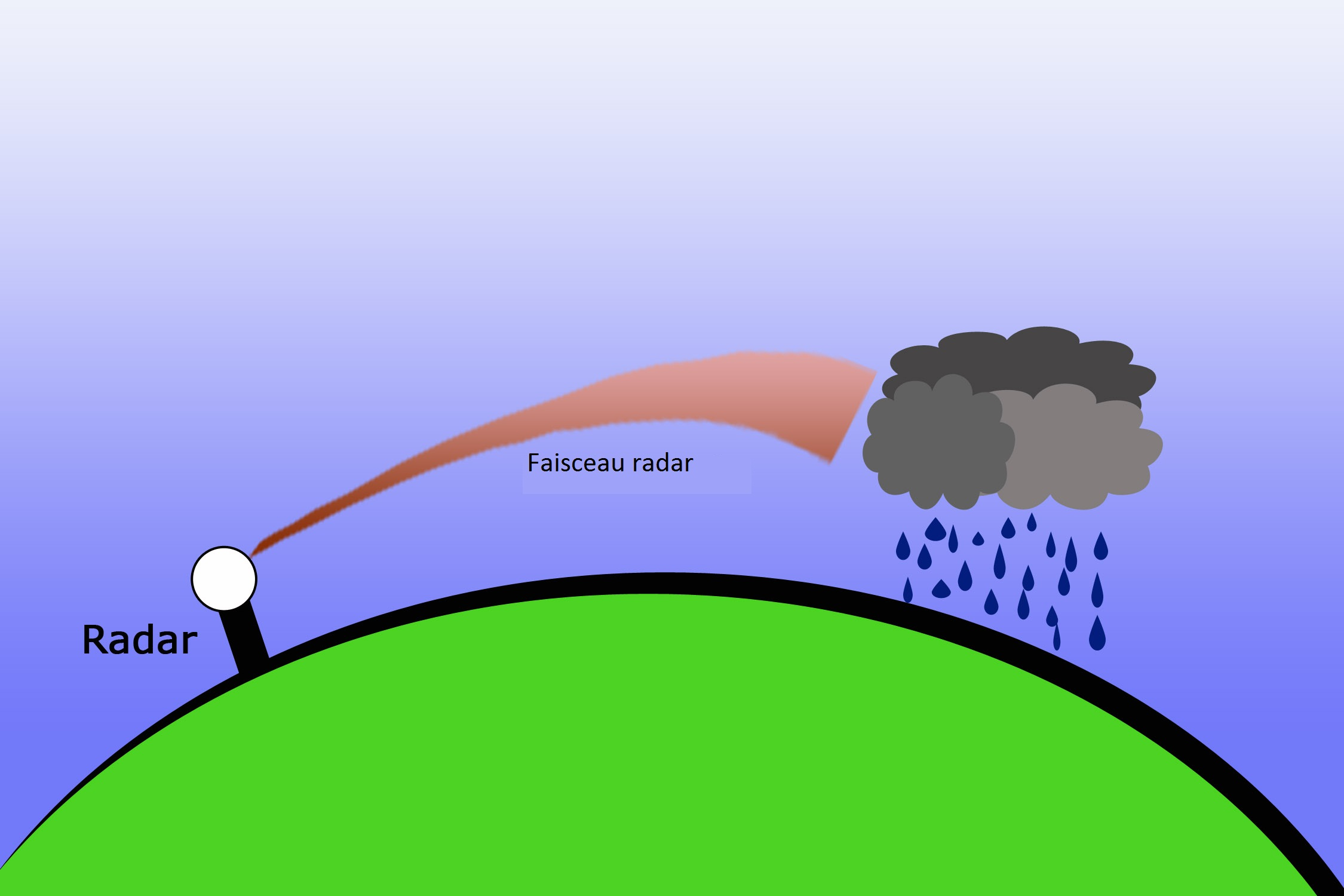 Superrefraction effect on a radar beam